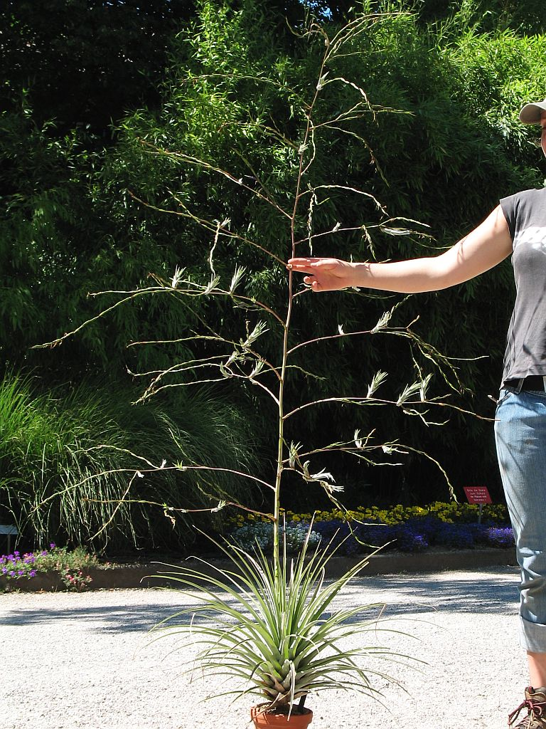 Tillandsia propagulifera in cultivation at the Botanical Garden of Heidelberg, Germany.